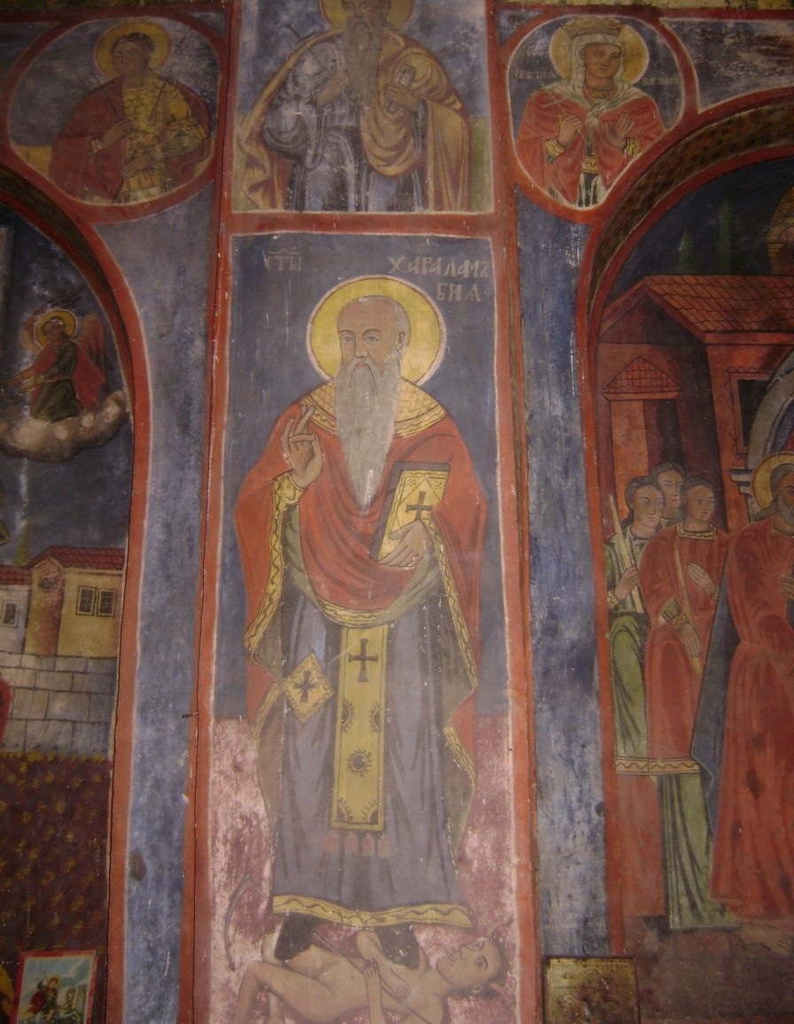 Veselchani Church Fresco